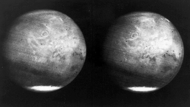 (1969) View of the entire planet of Mars from Mariner 7, showing NIX Olympia (later identified as the giant shield volcano Olympus Mons), and polar caps. Photographed from 200,000 miles away. The Mariner 7 spacecraft and its twin (Mariner 6) were designed specifically to concentrate on Mars. Better quality imaging was planned to give a more complete picture of the Martian surface to help in planning future missions to Mars to search for signs of life. Mariner 7 was launched on March 27, 1969 and arrived on August 4, 1969.